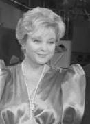 Fragment of File:Bundesarchiv B 145 Bild-F074157-0035, Frankfurt, ZNS Weihnachtskonzert, Hannelore Kohl.jpg